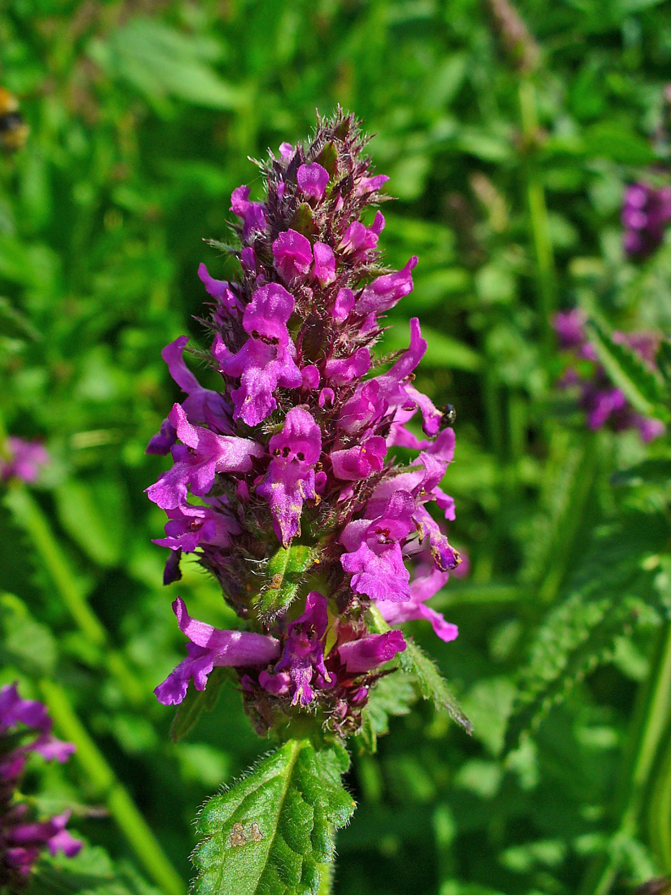 Stachys officinalis, Lamiaceae, Purple Betony, Wood Betony, Bishop's Wort, inflorescence.